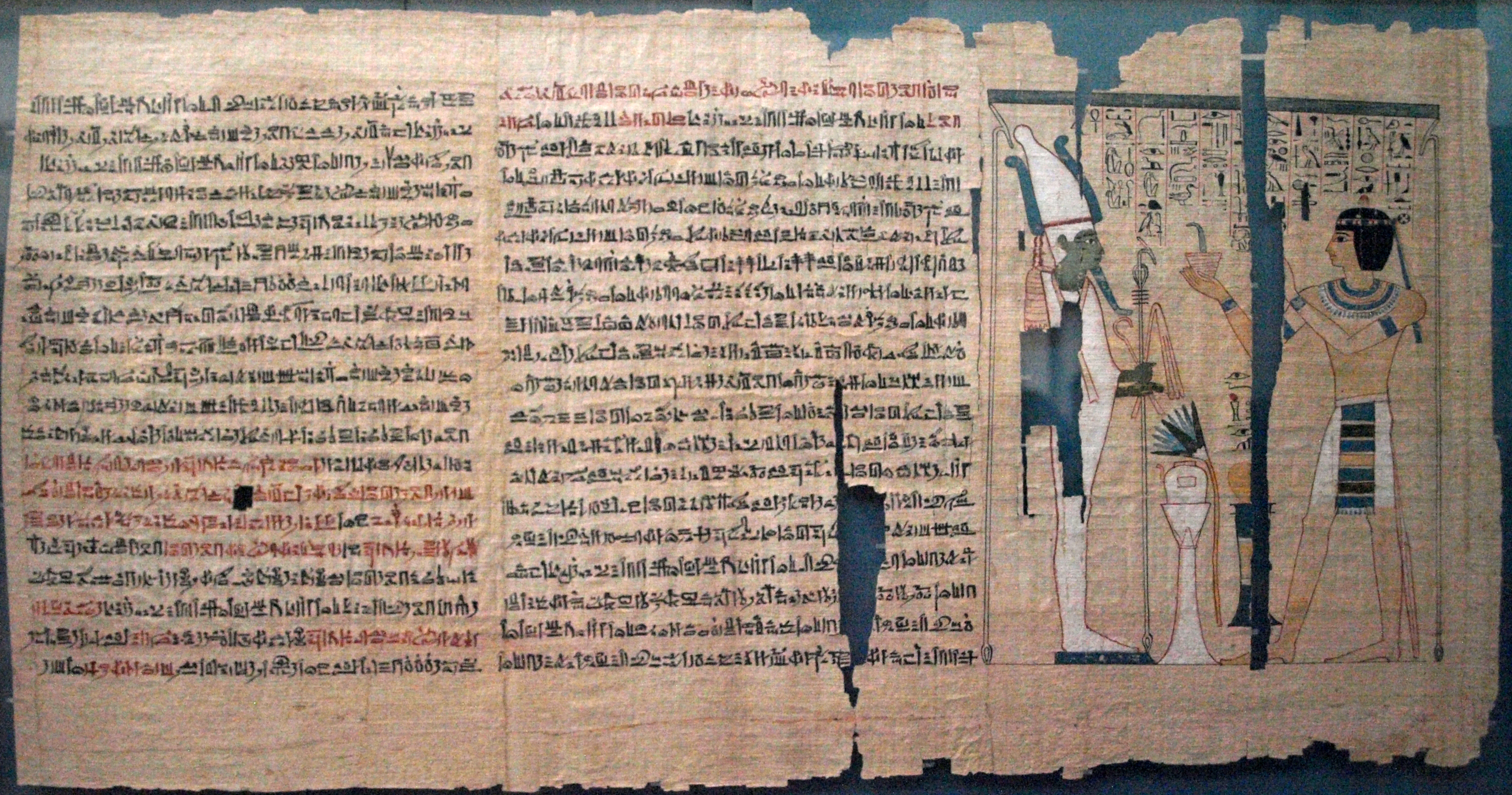 Book of the Dead papyrus of Pinedjem II, 21st dynasty, circa 990-969 BC. Originally from the Deir el-Bahri royal cache. This scene depicts Pinedjem II in his role of High Priest making an offering to the god Osiris. EA 10793/1.